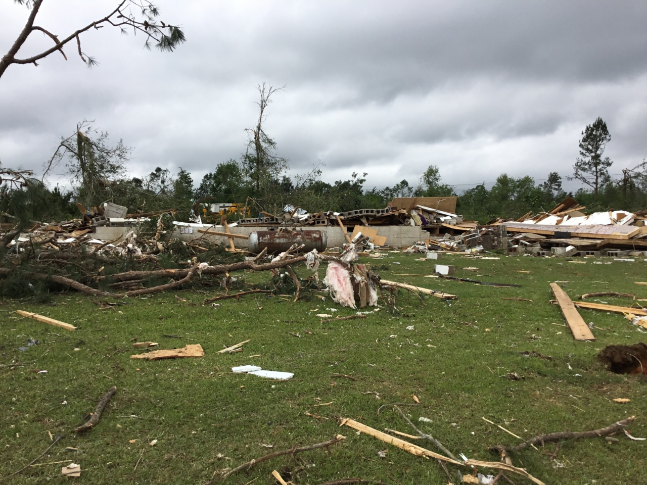 Remains of a block foundation house that was leveled at EF3 intensity to the northeast of Carson, Mississippi